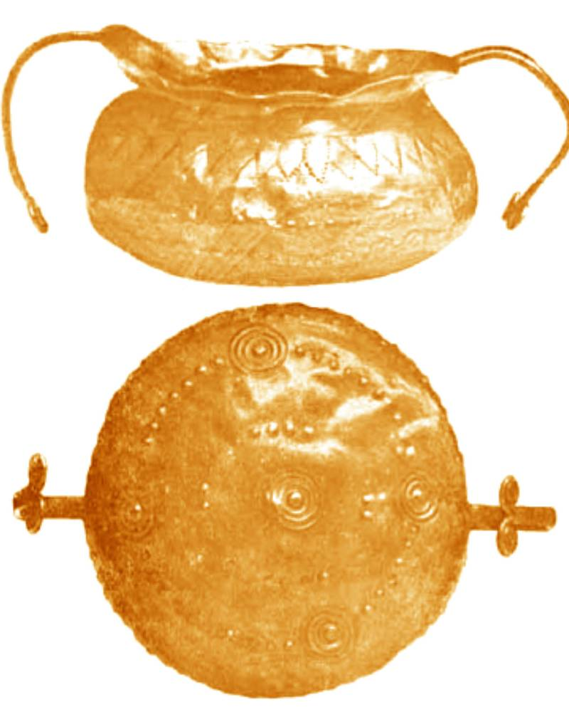 Dacian gold goblet from Biia (Transylvania) Romania. It can be dated to 1,500 – 1,000 BC. It has handles ending with double-spiral motif. Two views (front and bottom) It was published by Parvan Vasile in "Getica" plate XIV, 1926, Cultura nationala, Bucuresti, Romania